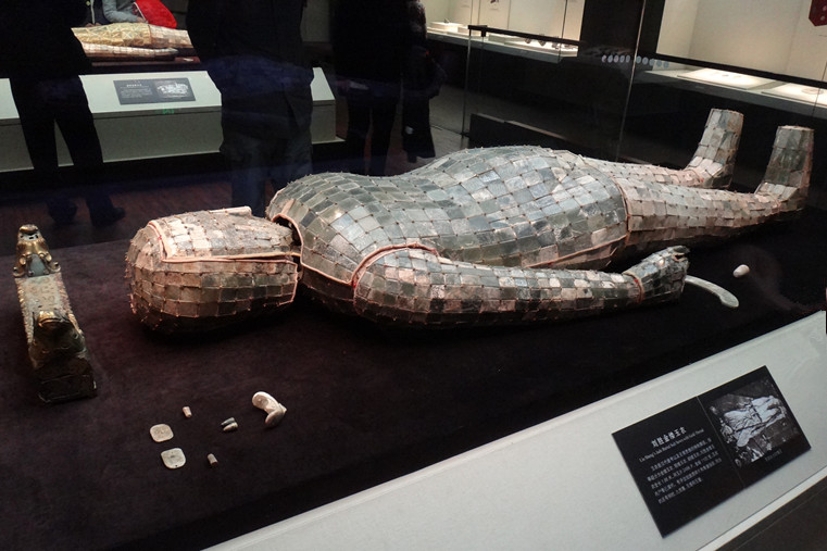 Jade burial suit of Liu Sheng